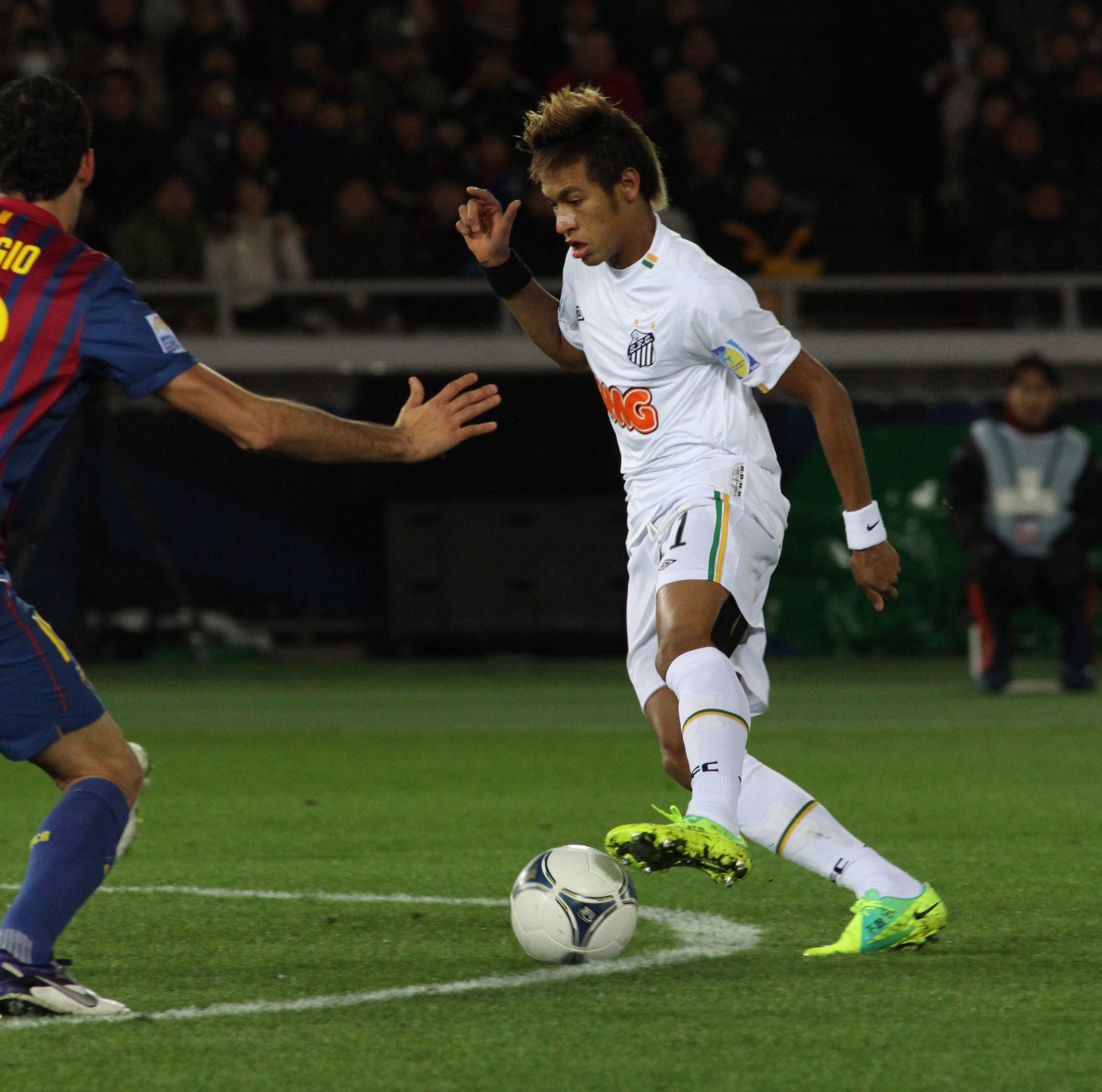 Neymar during the 2011 FIFA Club World Cup Final.